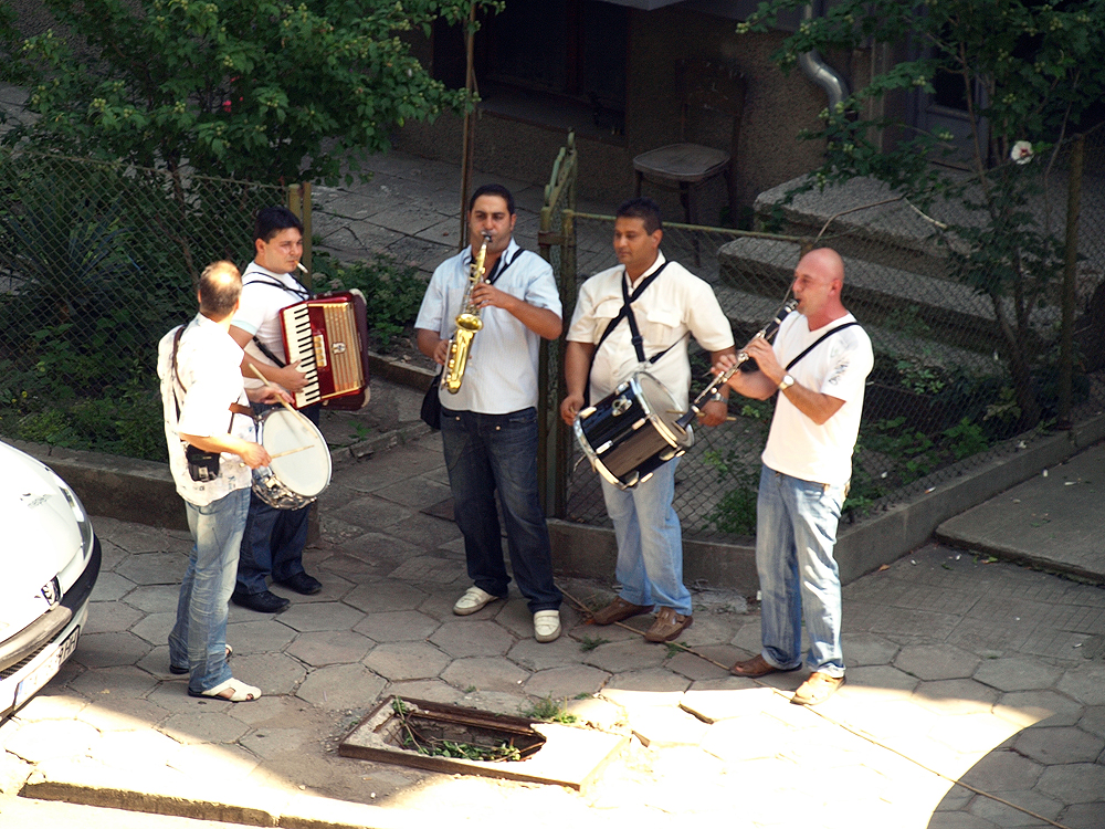 A Gypsy Orchestra, hired for a Wedding in Sofia, Bulgaria